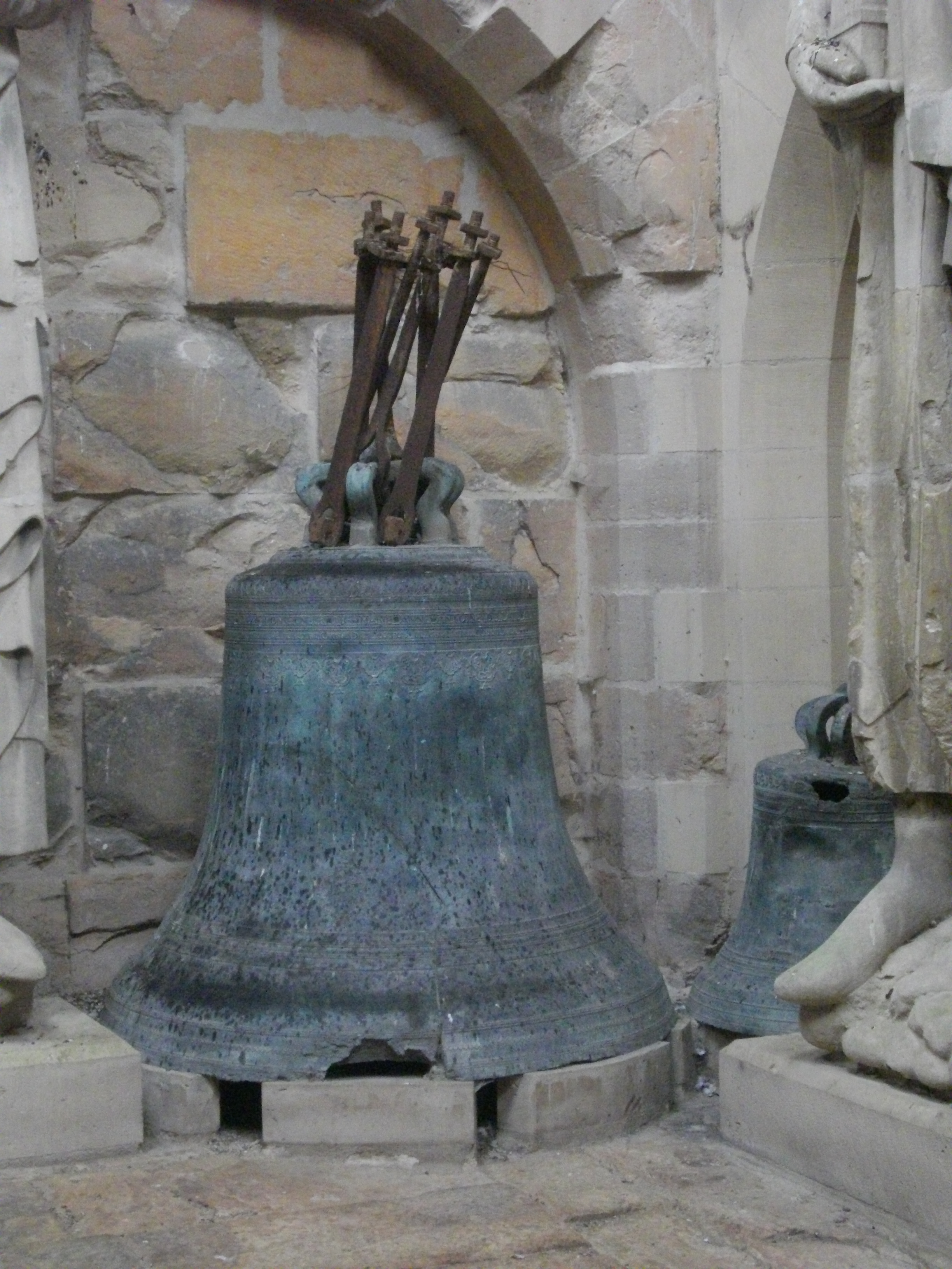 Our Lady cathedral of Reims (Marne, France). Northern tower, seen from the interior, bells .